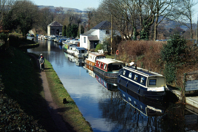 Monmouthshire & Brecon Canal, Govilon. Looking west from the B4246 road bridge.